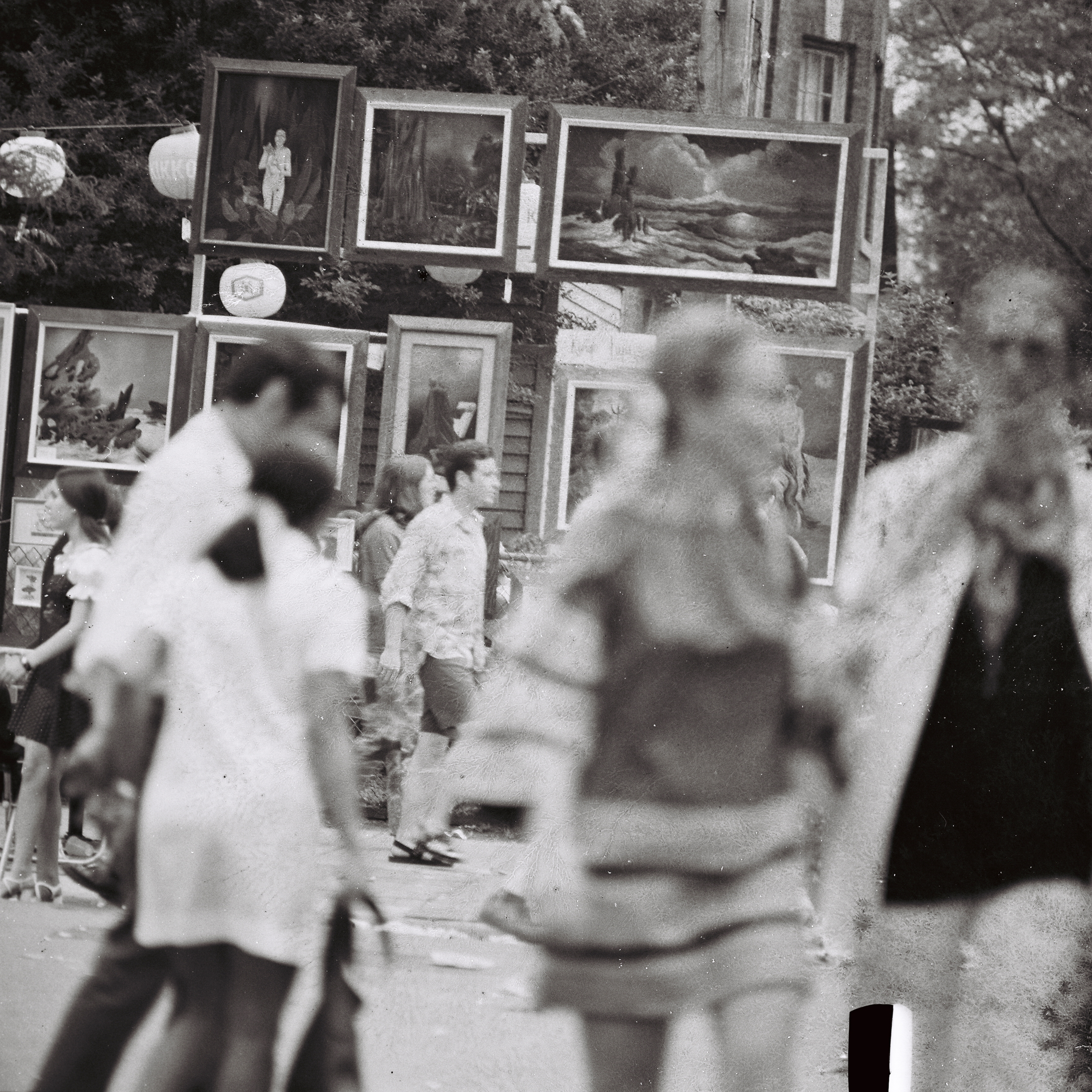 Photography by Victor Albert Grigas (1919-2017) 000479640006